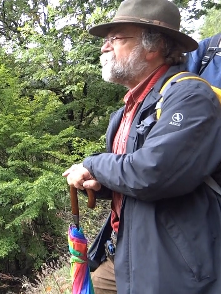 Gérard Leser, in the valley of Wormsa (Metzeral, Alsace).